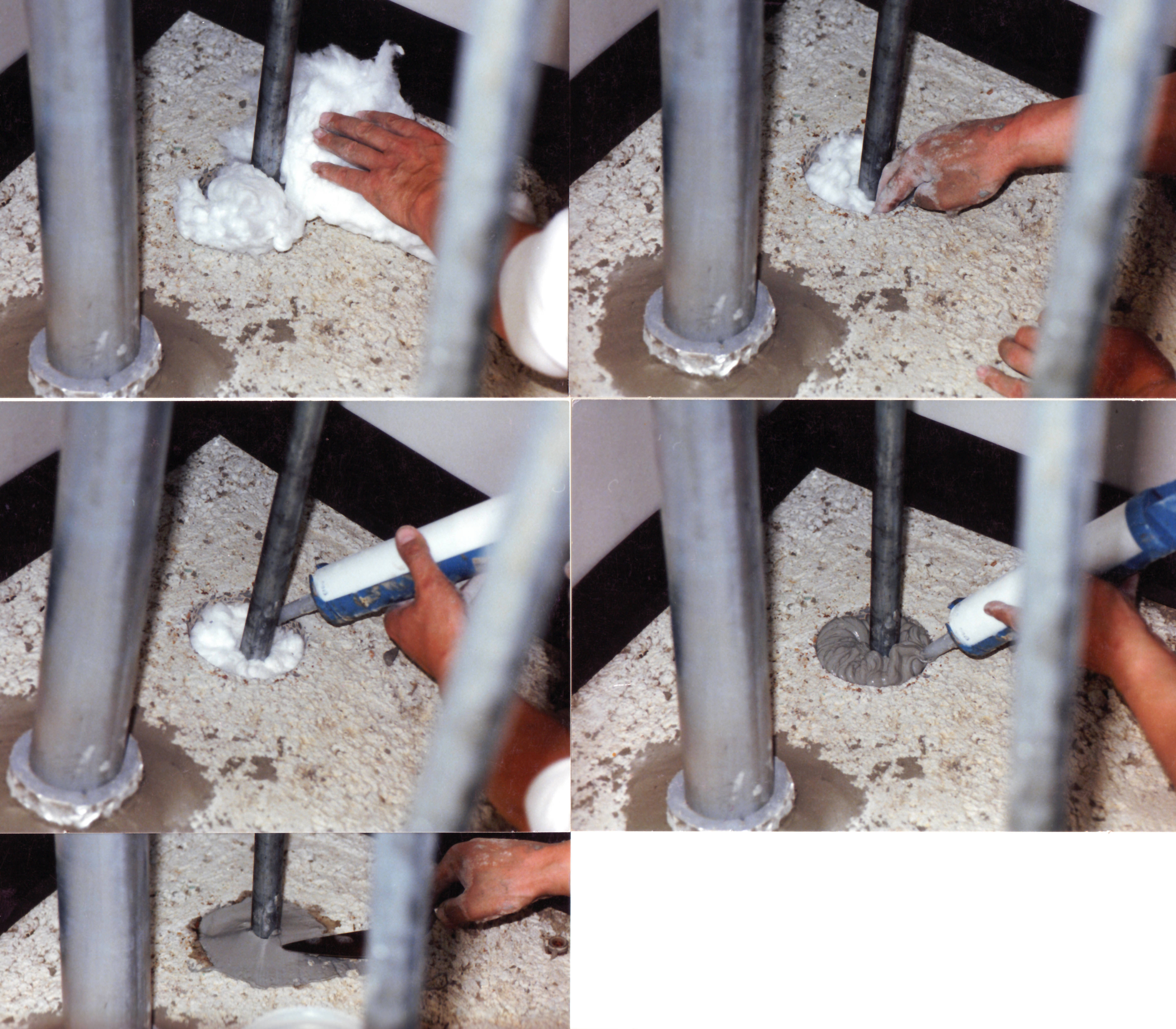 Installation of firestop samples. Ceramic fibre is being used as packing, to be finished off with Nelson CLK silicone caulking. To the left, the penetration is sealed with Nelson WRP (mineral foam) and Nelcon CMP, a firestop mortar.